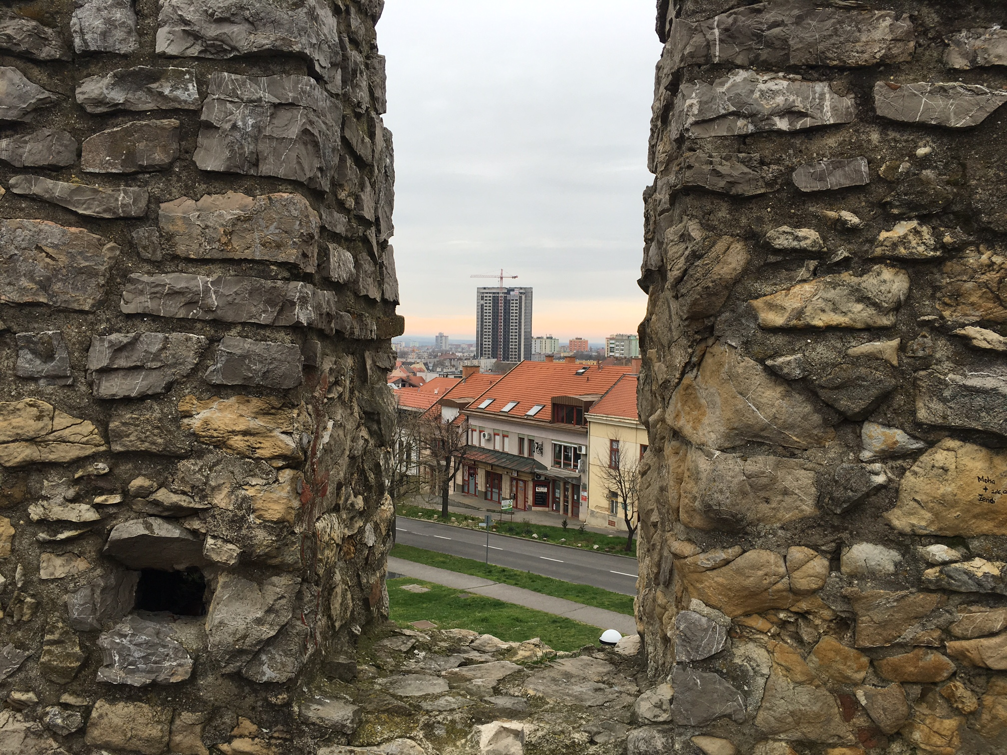 View of Magashaz from Barbakan